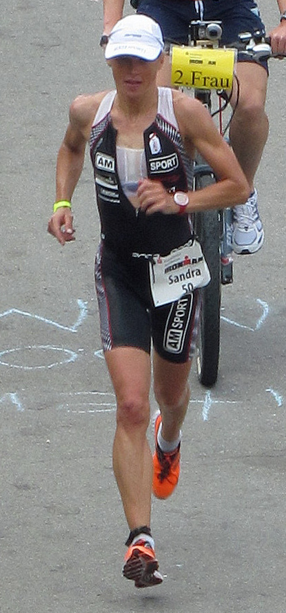 Sandra Wallenhorst, 2010, Ironman Germany in Frankfurt am Main.